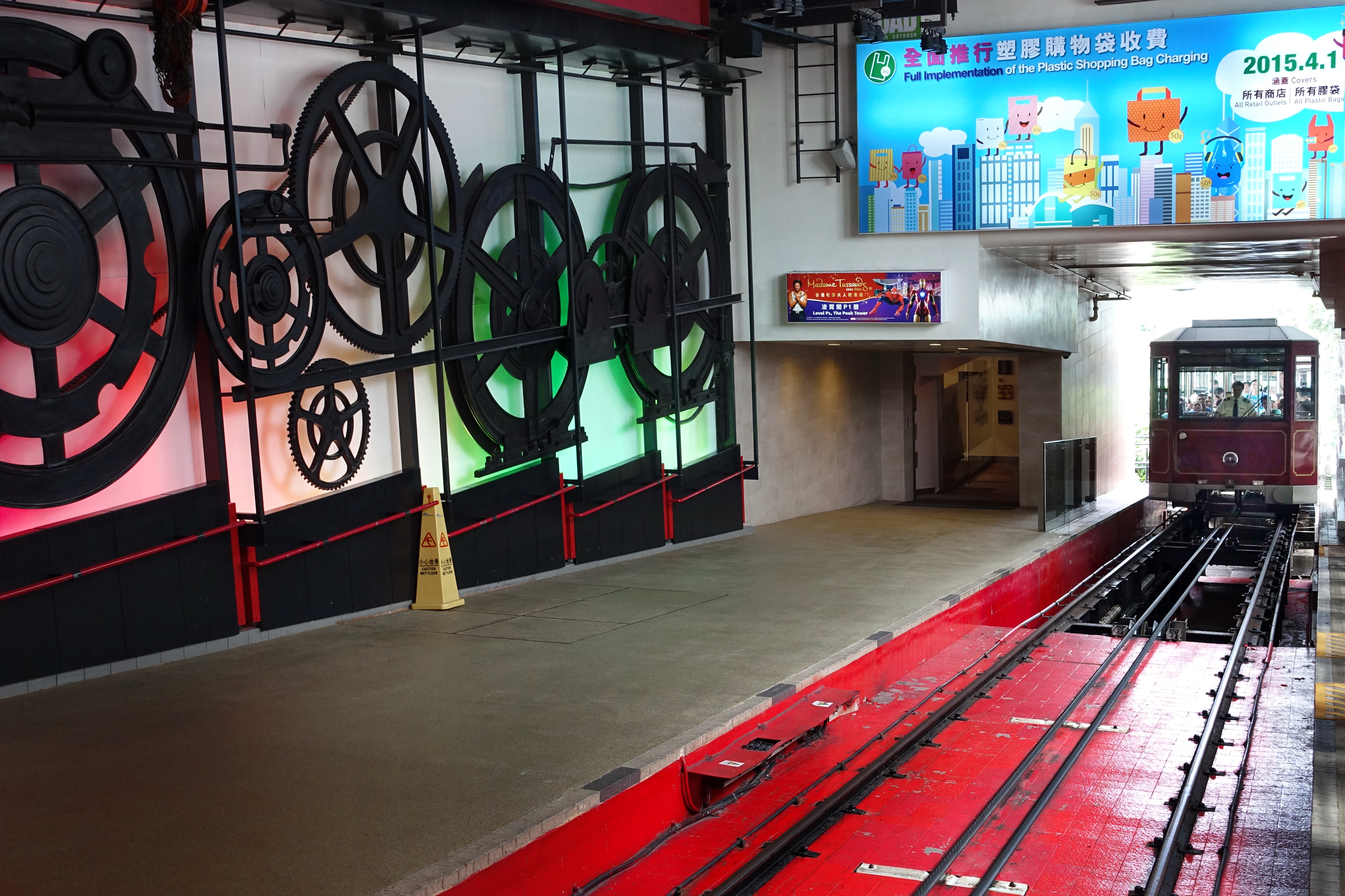 A Peak Tram arriving at the upper terminus of the Peak Tram funicular railway line in Hong Kong.